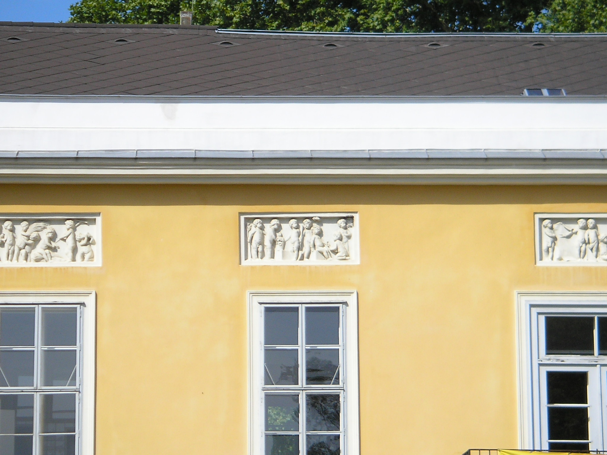 Image of the park at Schloß Pötzleinsdorf and the Schloss.